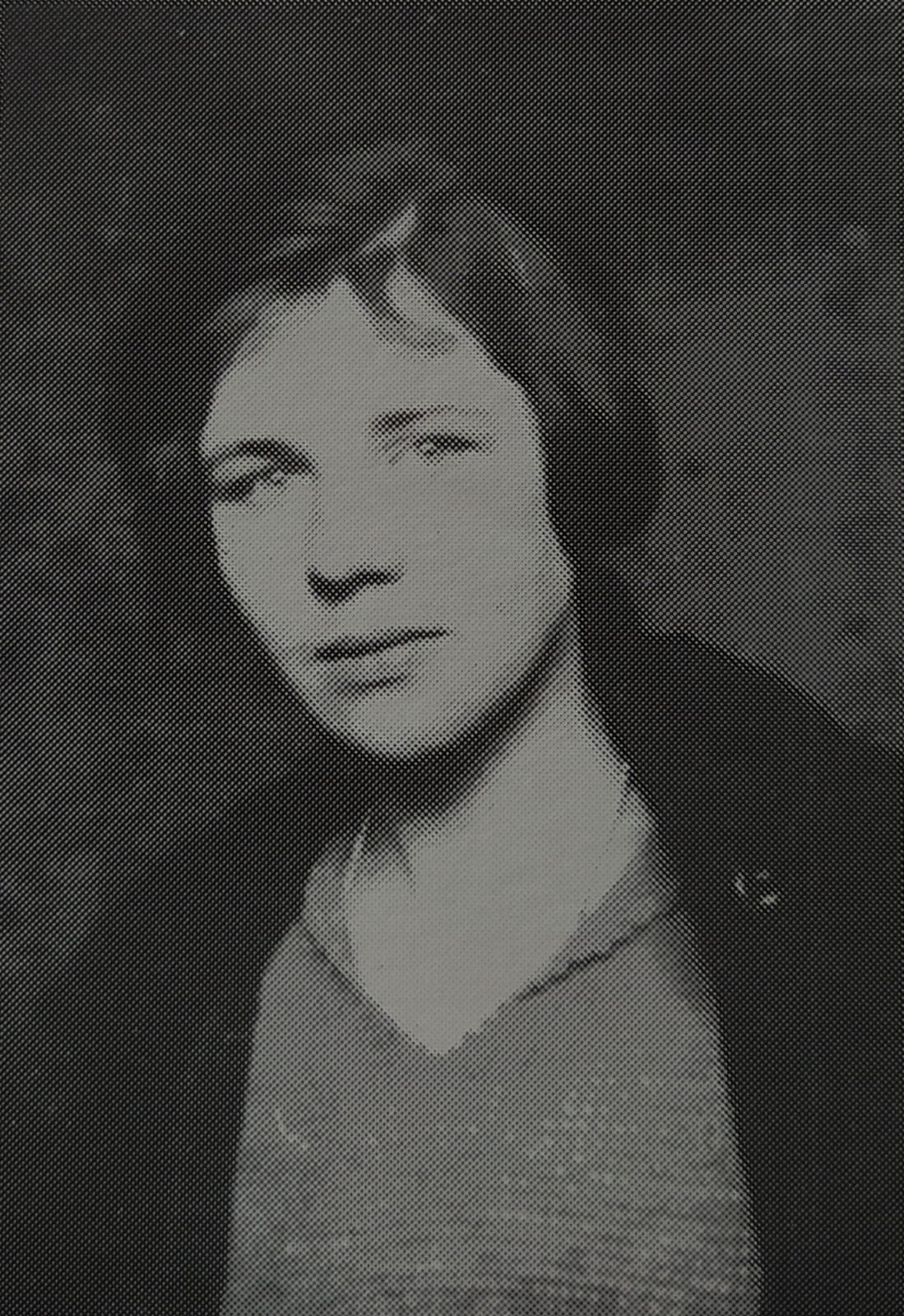 Alice Bešević, Serbian pianist of Estonian origin, wife of Nikola Bešević, Serbian painter. Српски (ћирилица): Алиса Бешевић, српска пијанисткиња естонског порекла, супруга Николе Бешевића, сликара.